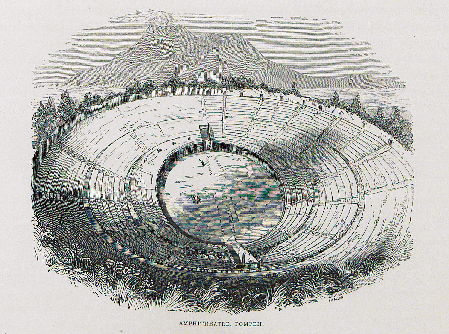 John Harrison Allan. A Pictorial Tour in the Mediterranean: Including Malta-Dalmatia-Turkey-Asia Minor-Grecian Archipelago-Egypt-Nubia-Greece-Ionian Islands-Sicily-Italy-and Spain, London, Longman, Brown, Green, and Longmans, 1843.